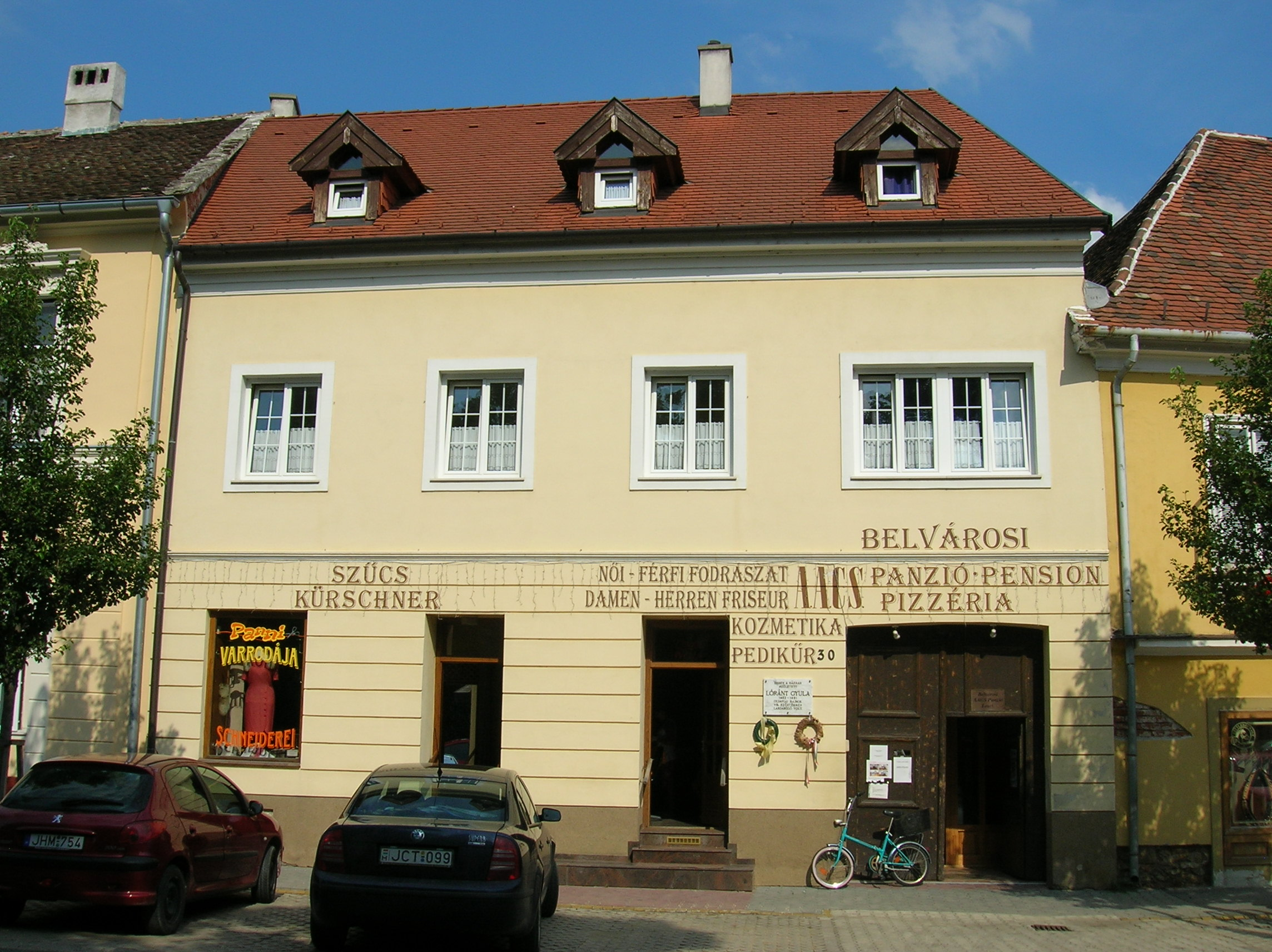 The house in which Gyula Lóránt (Hungarian footballer) was born. Kőszeg, Hungary